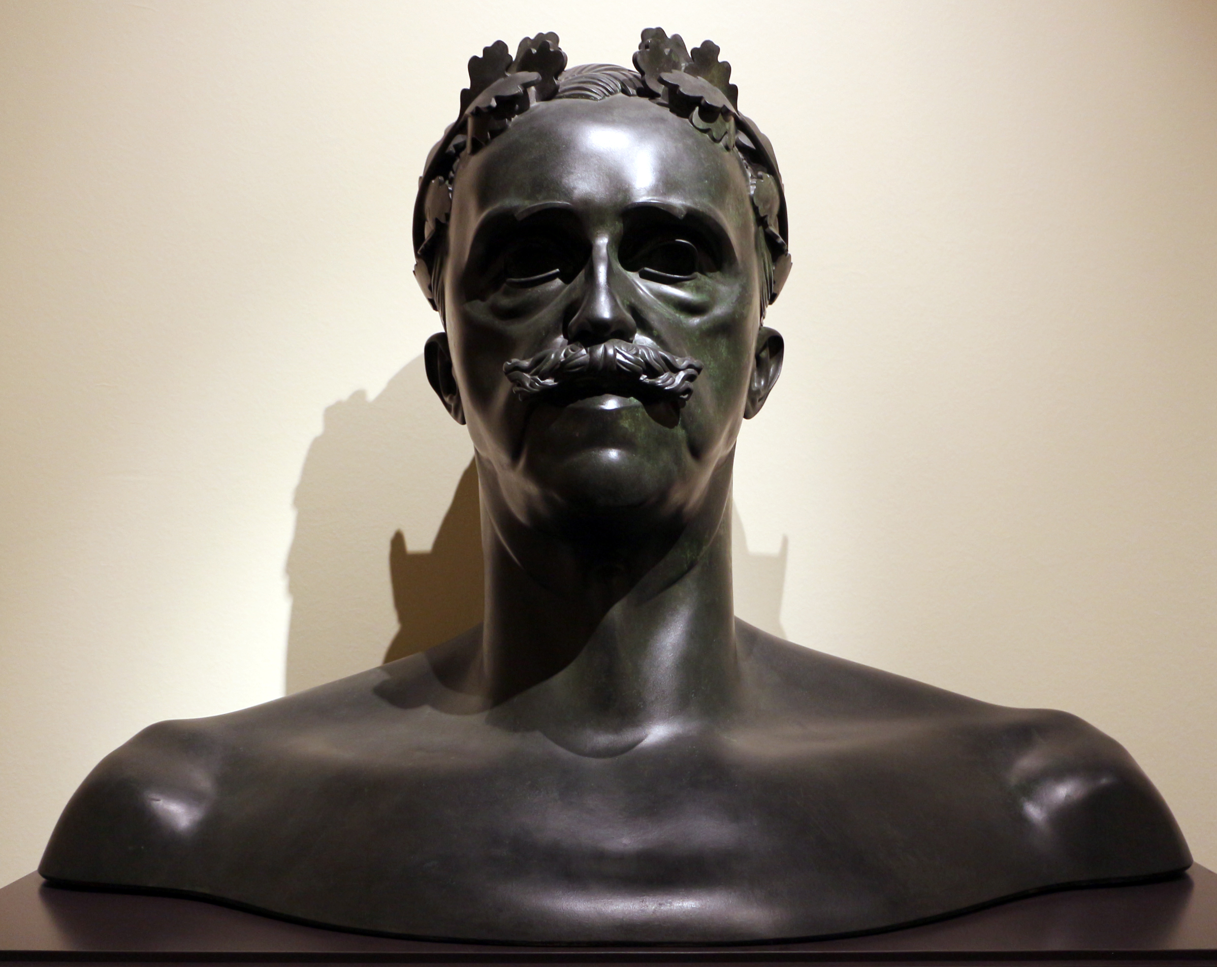 Vittorio Emanuele III by Adolfo Wildt